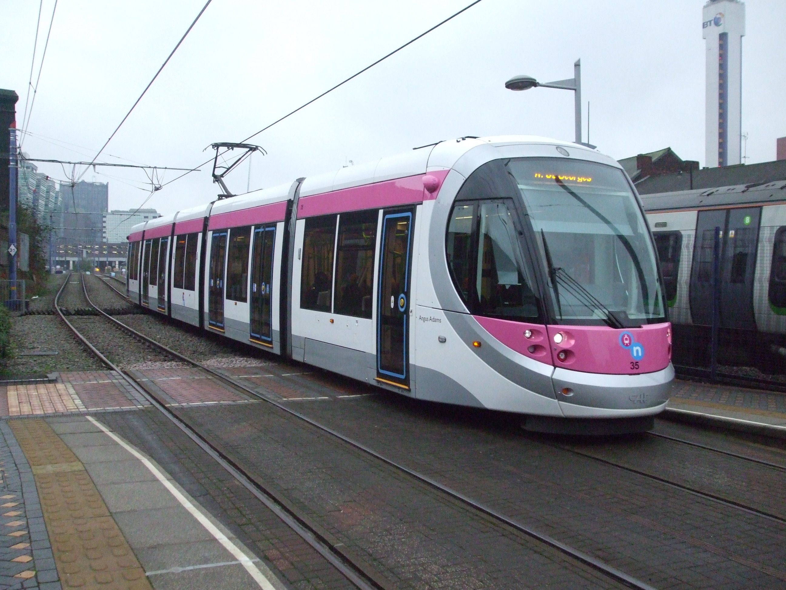 St Pauls tramstop in Birmingham, in 2015